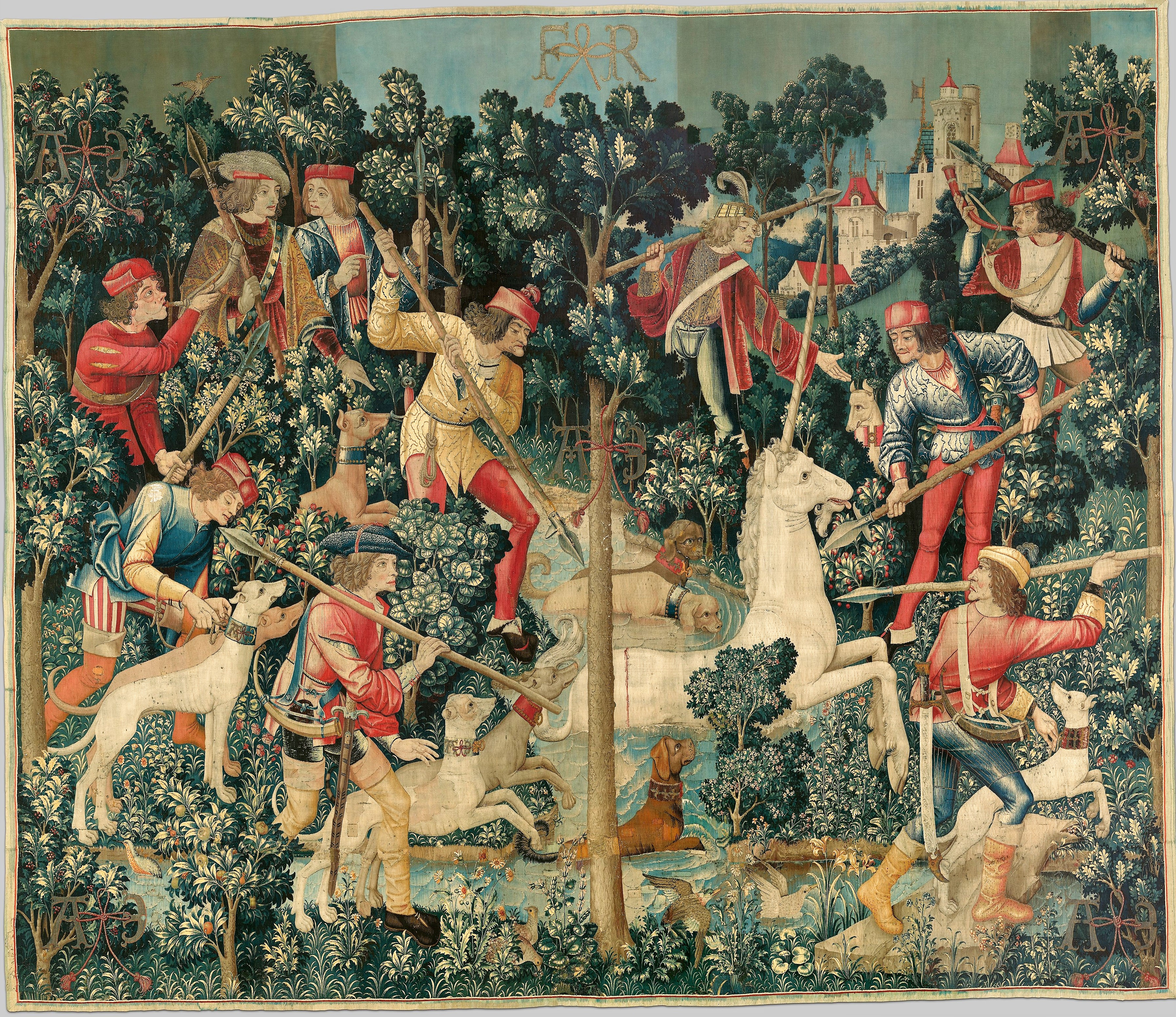 According to tradition, the unicorn cannot be disturbed while performing a magical act. The attack by the hunters thus presumably begins soon after the action depicted in The Unicorn Is Found, and the scene is one filled with chaos and commotion. The ferocity of the battle is conveyed by the converging lances aimed at the animal, the sounding of the hunting horns, and the menacing hounds. Already wounded on his back, the unicorn leaps across a stream in a desperate attempt to escape his encircling enemies. The use of hounds to scout, chase, and eventually attack the quarry was typical practice in medieval stag hunts, and the palatial buildings in the background might be a further allusion to the hunt as a royal or aristocratic pastime. Unlike The Hunters Enter the Woods and The Unicorn in Captivity, this and the other hangings are set in realistic landscapes that enhance the drama of the hunt.